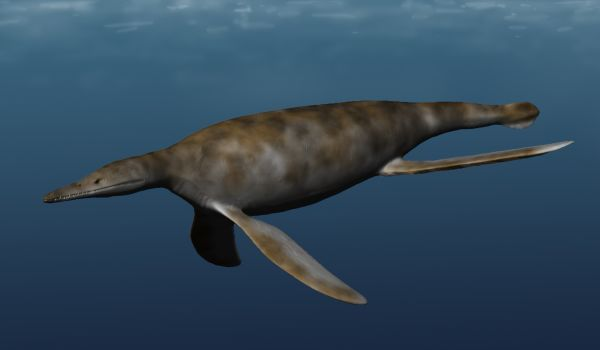 Gallardosaurus